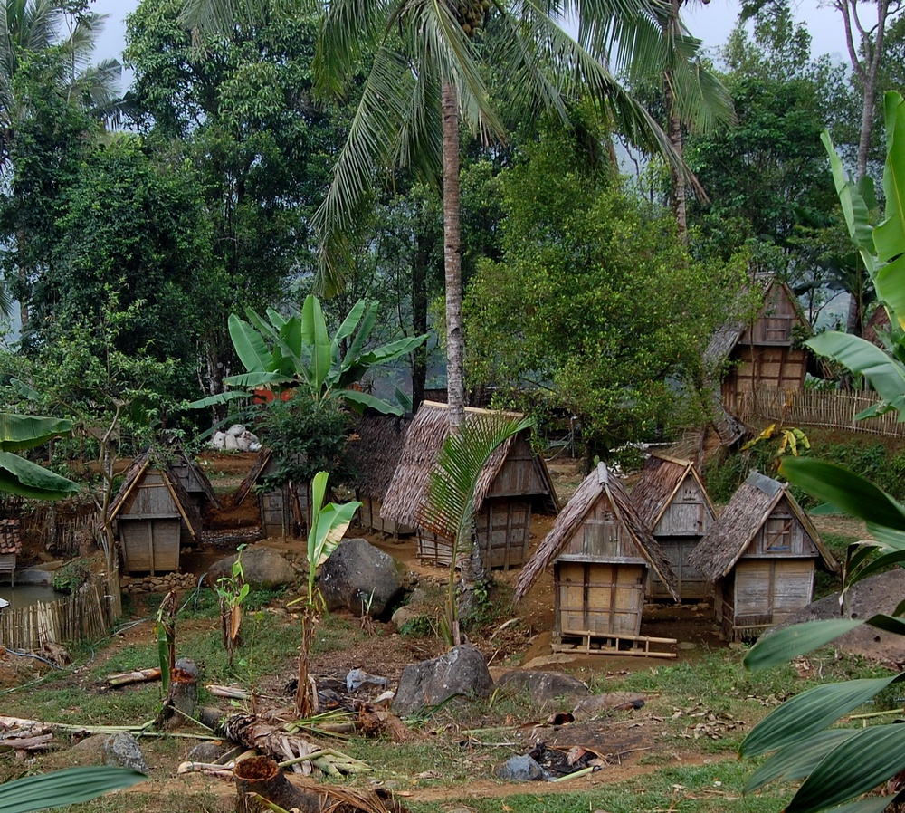 A group of leuit, traditional Sundanese rice barn. Sirnarasa, Kasepuhan village near Palabuhanratu, Sukabumi, West Java